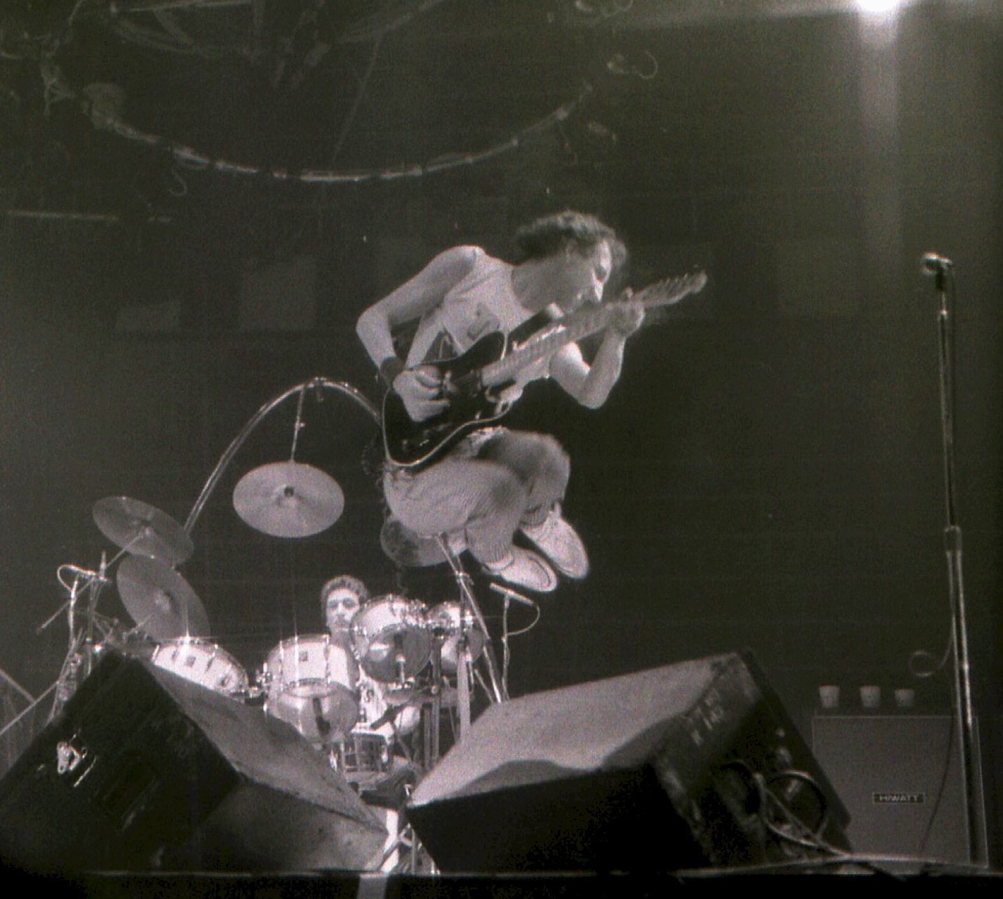 MLG, Toronto, May 6, 1980 Photo by Jean-Luc Ourlin